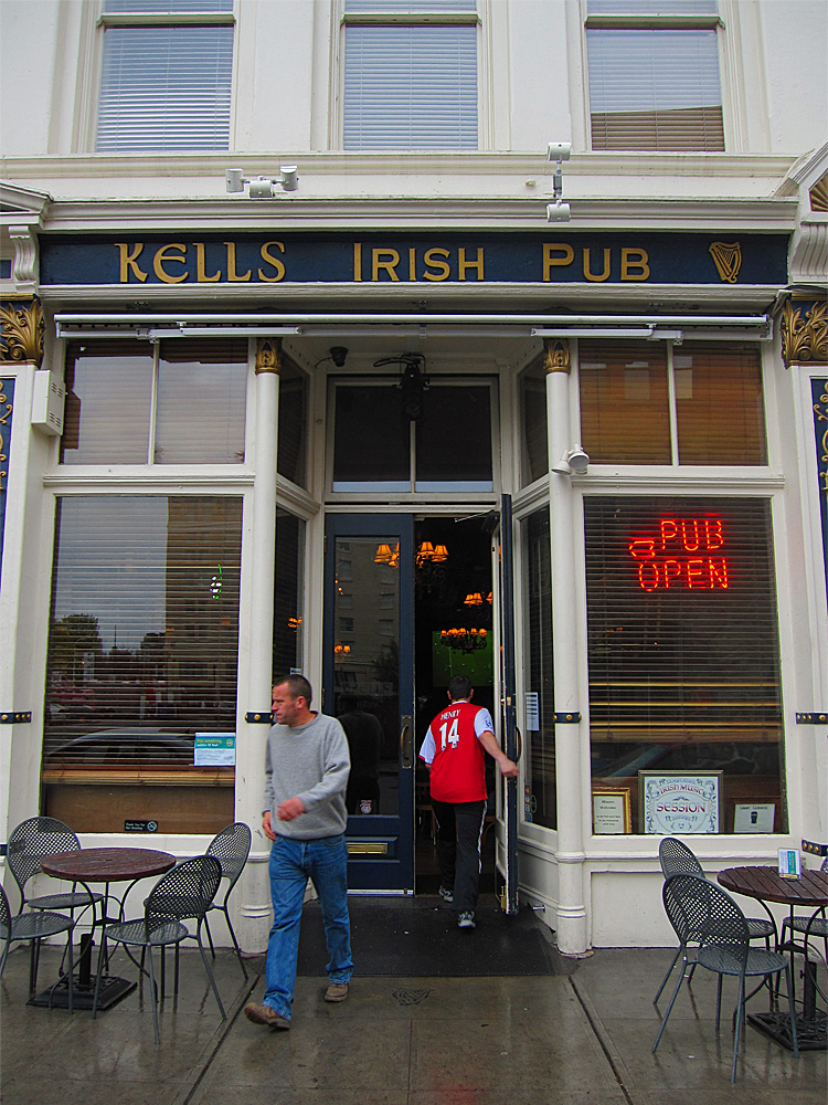 Kell's Irish Pub in Portland, Oregon.